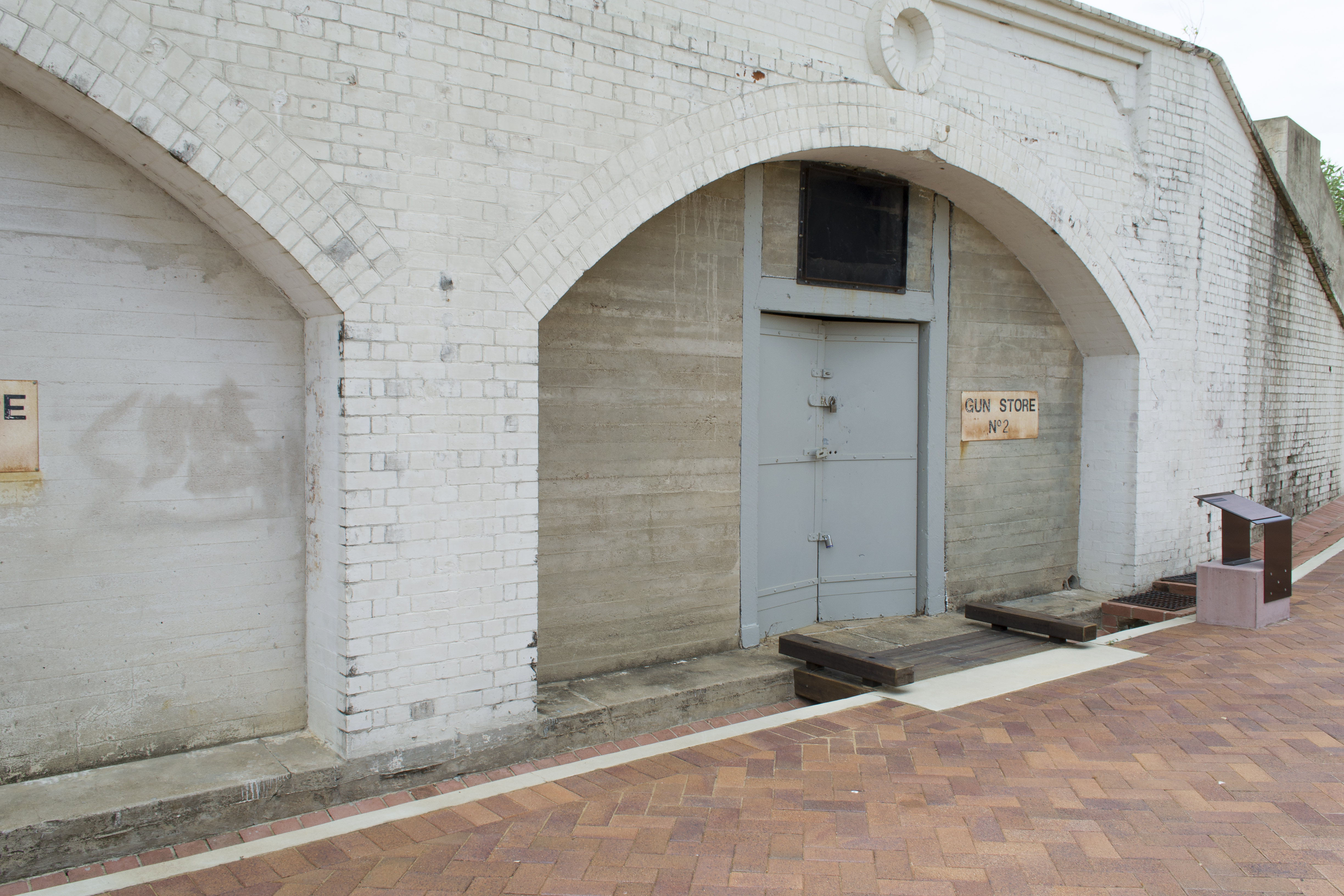 Old store room, part of the fortifications at Kissing Point, Townsville, Queensland. Now contained within the Jezzine Barracks heritage precinct and park.